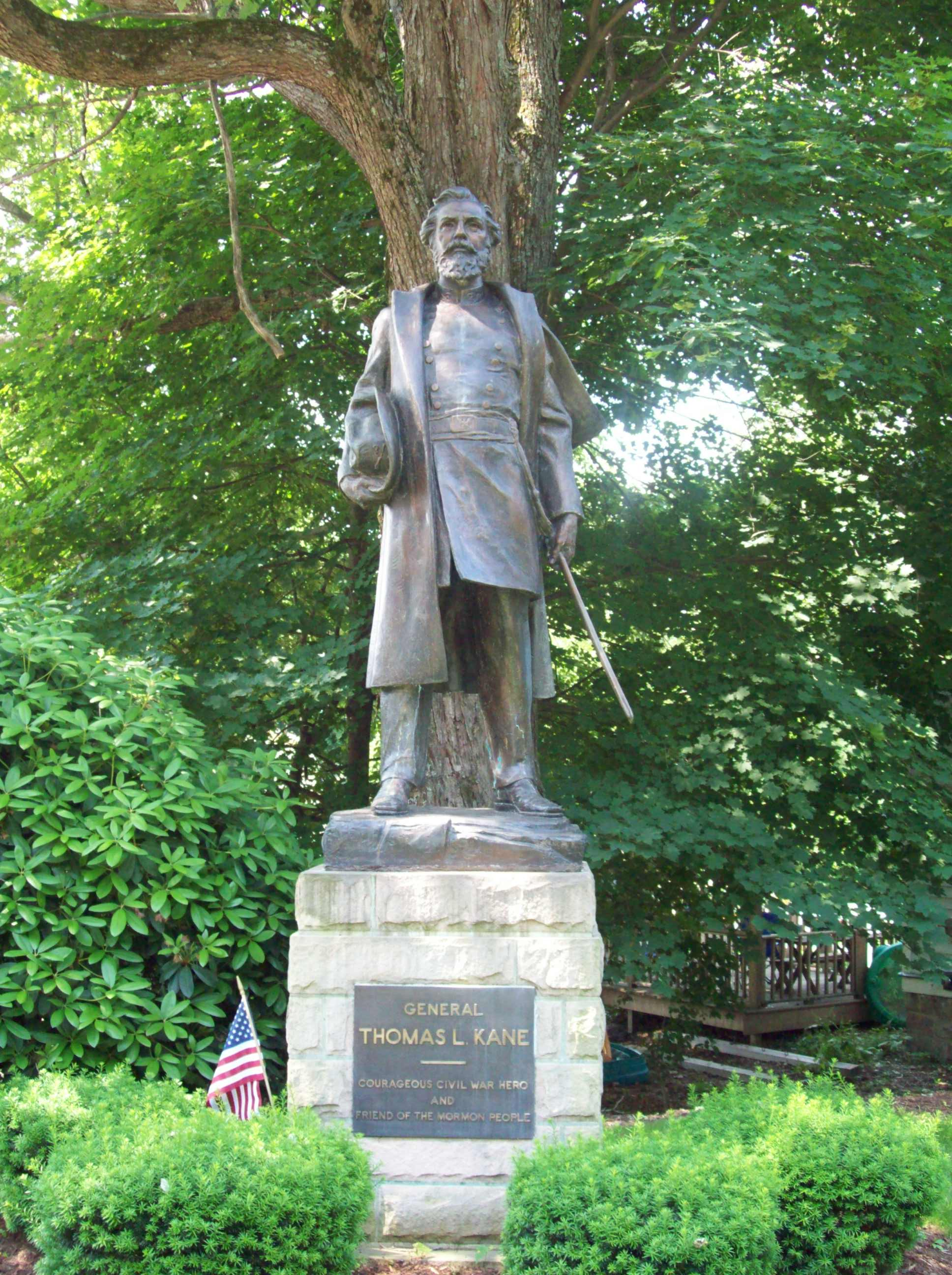 Statue of Major General Thomas L. Kane, Kane Pa., June 2009